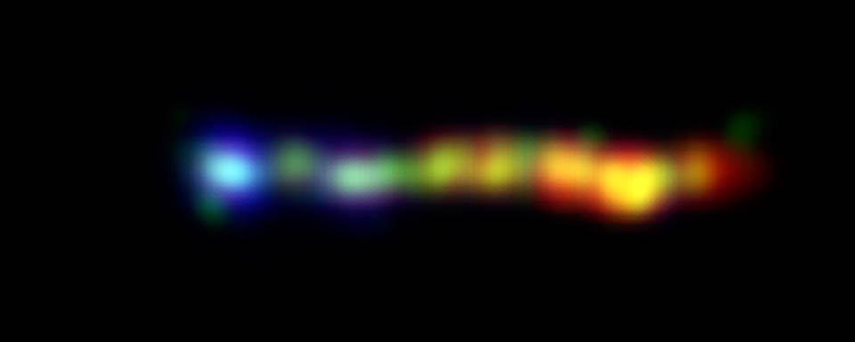 This new false-colored image from NASA's Hubble, Chandra and Spitzer space telescopes shows a giant jet of particles that has been shot out from the vicinity of a type of supermassive black hole called a quasar. The jet is enormous, stretching across more than 100,000 light-years of space a size comparable to our own Milky Way galaxy! Quasars are among the brightest objects in the universe. They consist of supermassive black holes surrounded by turbulent material, which is being heated up as it is dragged toward the black hole. This hot material glows brilliantly, and some of it gets blown off into space in the form of powerful jets. The jet pictured here is streaming out from the first known quasar, called 3C273, discovered in 1963. A kaleidoscope of colors represents the jet's assorted light waves. X-rays, the highest-energy light in the image, are shown at the far left in blue (the black hole itself is well to the left of the image). The X-rays were captured by Chandra. As you move from left to right, the light diminishes in energy, and wavelengths increase in size. Visible light recorded by Hubble is displayed in green, while infrared light caught by Spitzer is red. Areas where visible and infrared light overlap appear yellow.